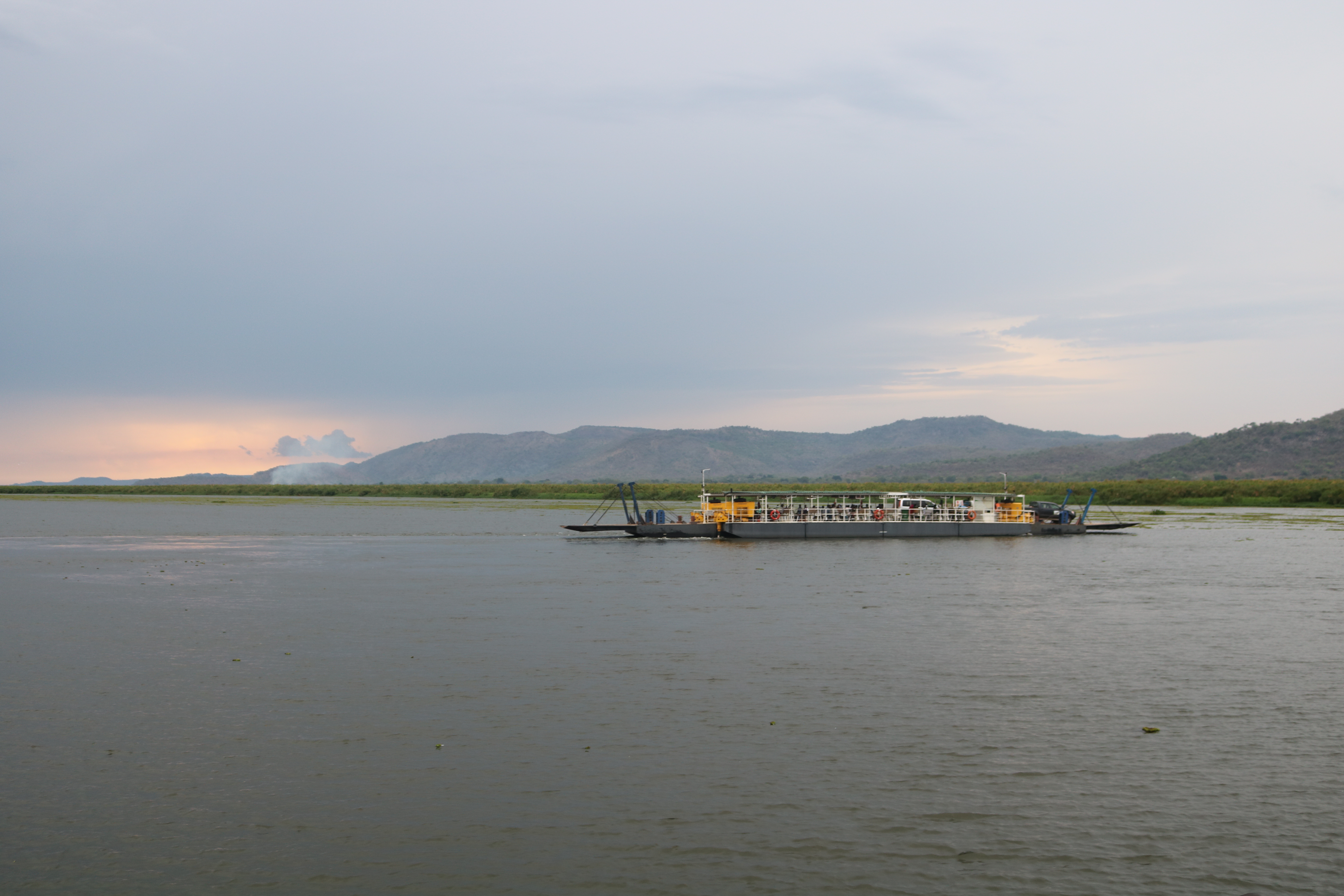 Ferry Crossing River Nile in Uganda This is an image with the theme "Africa on the Move or Transport" from: Uganda